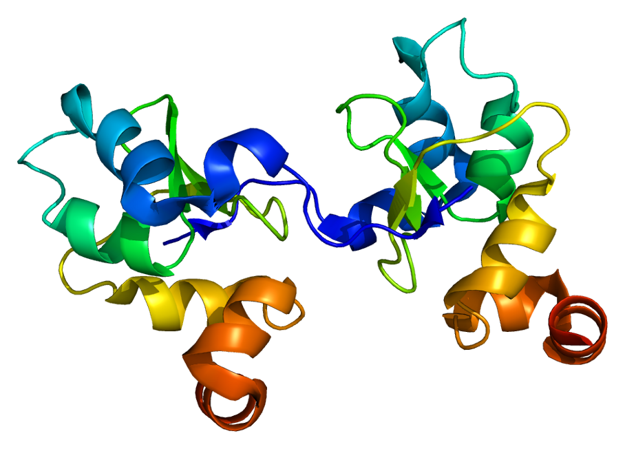 Structure of the BIRC3 protein. Based on PyMOL rendering of PDB 2uvl.